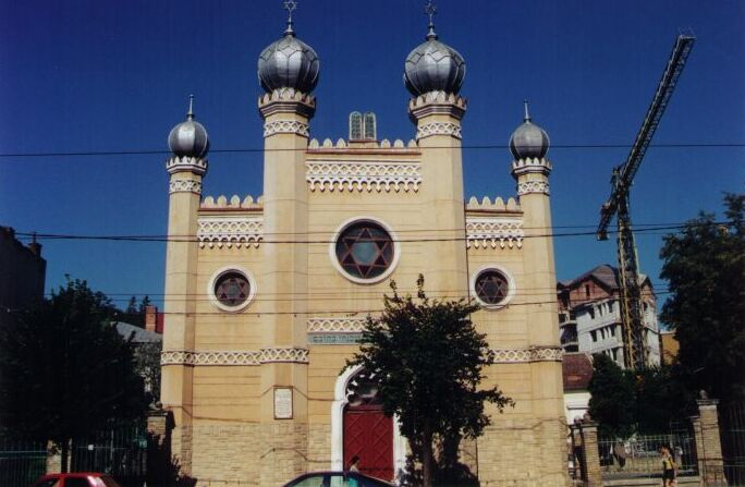 Jewish Synagogue in Cluj, Romania